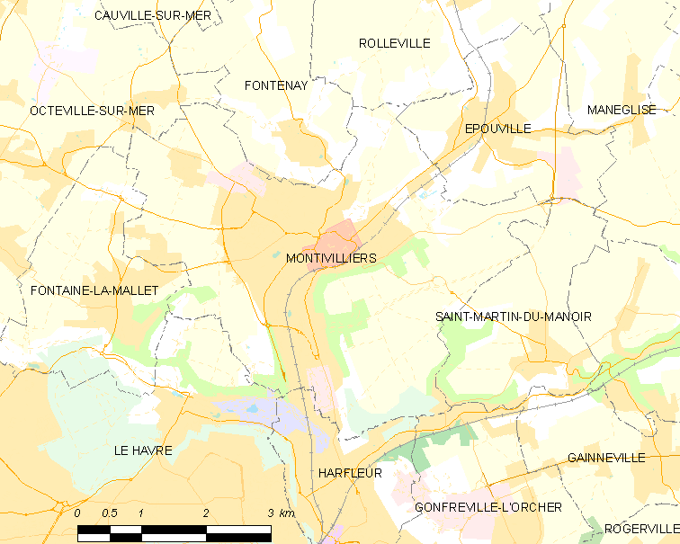 Map of French municipality Montivilliers